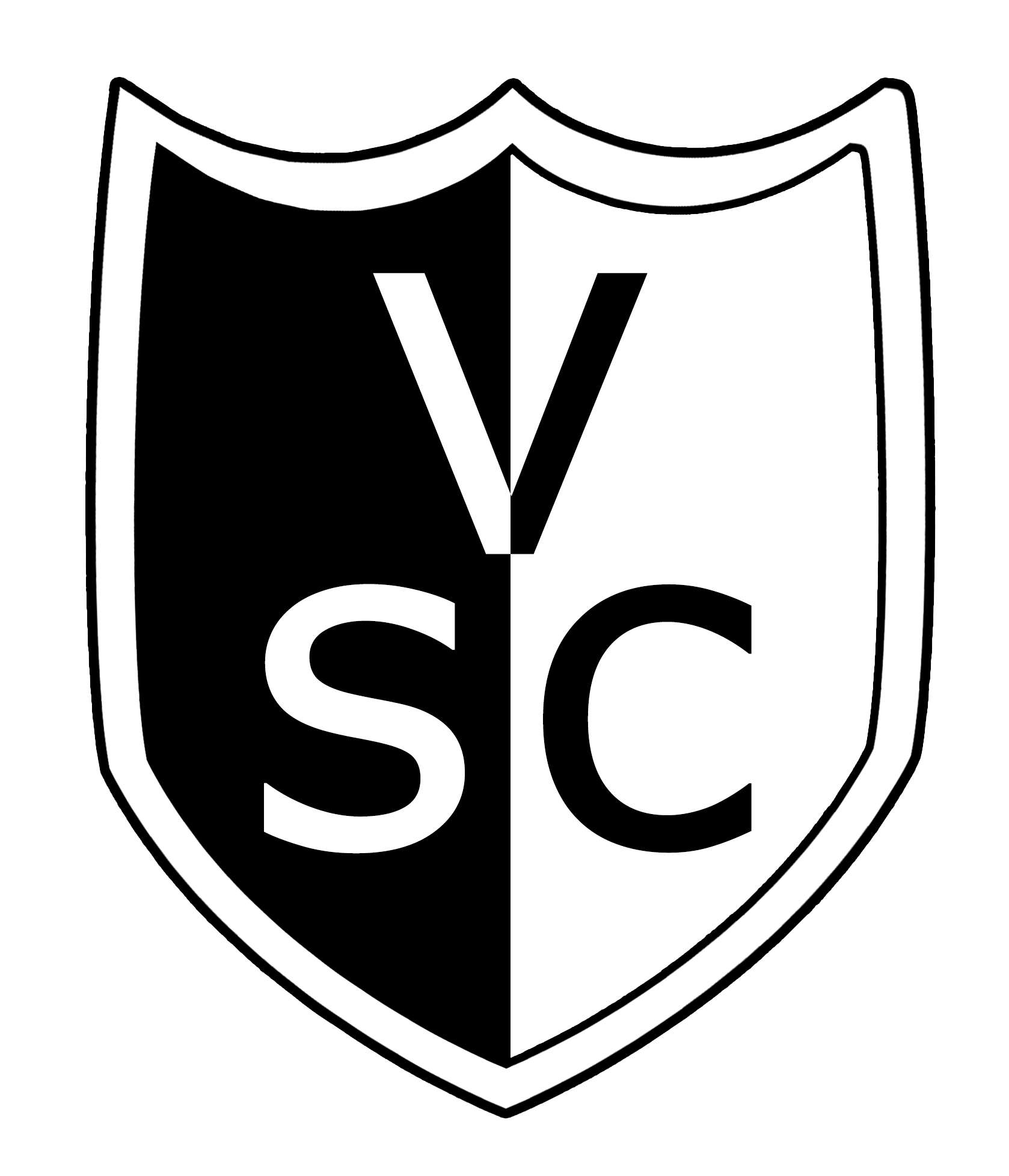 Vitória Sport Clube's 1924 Badge